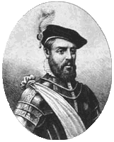 A 19th century lithograph of Juan López de Padilla, the most prominent leader of the Revolt of the Comuneros. It's an oval of Padilla's torso and head. Inscribed on the banderole beneath the work is "Juan de Padilla decapitated in Villalar the 24th of April of 1522."